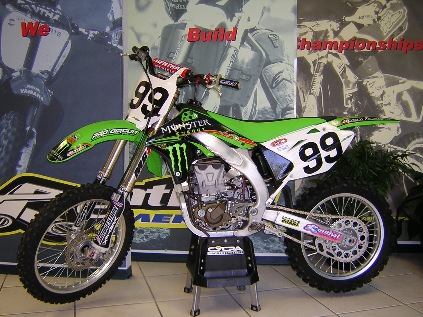 2006 KX450 photographed by Brad Cameron at Renthal Ltd's offices in Valencia, CA, USA